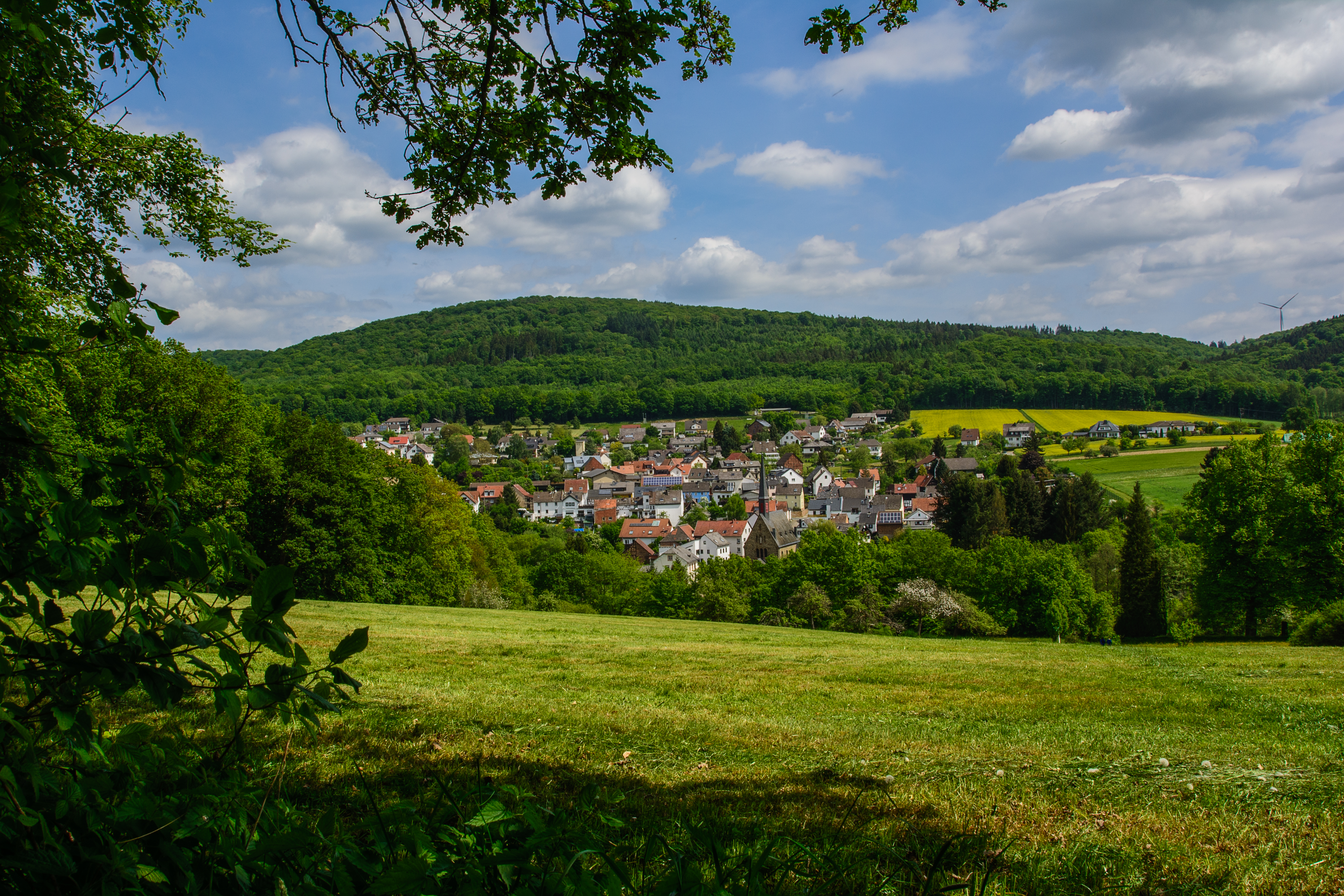 View towards Dombach into the Dombachtal. The valley itself is protected as Special Area of Conservation, the region on a larger scale is part of Naturpark Taunus.